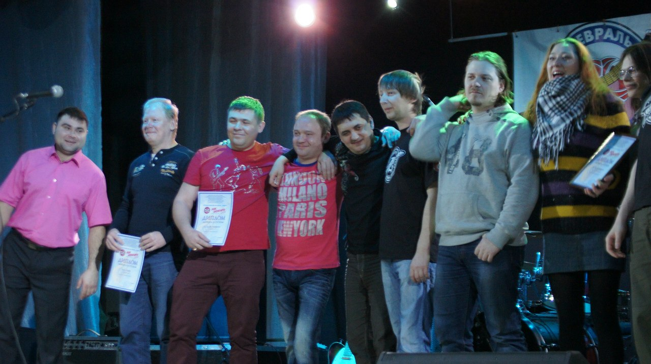 Музыканты X Всероссийского фестиваля «Рок-Февраль — 2014»3